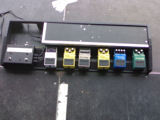 Gary Lightbody's pedalboard.